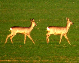 Roe deer on weat fields in Šurianky village